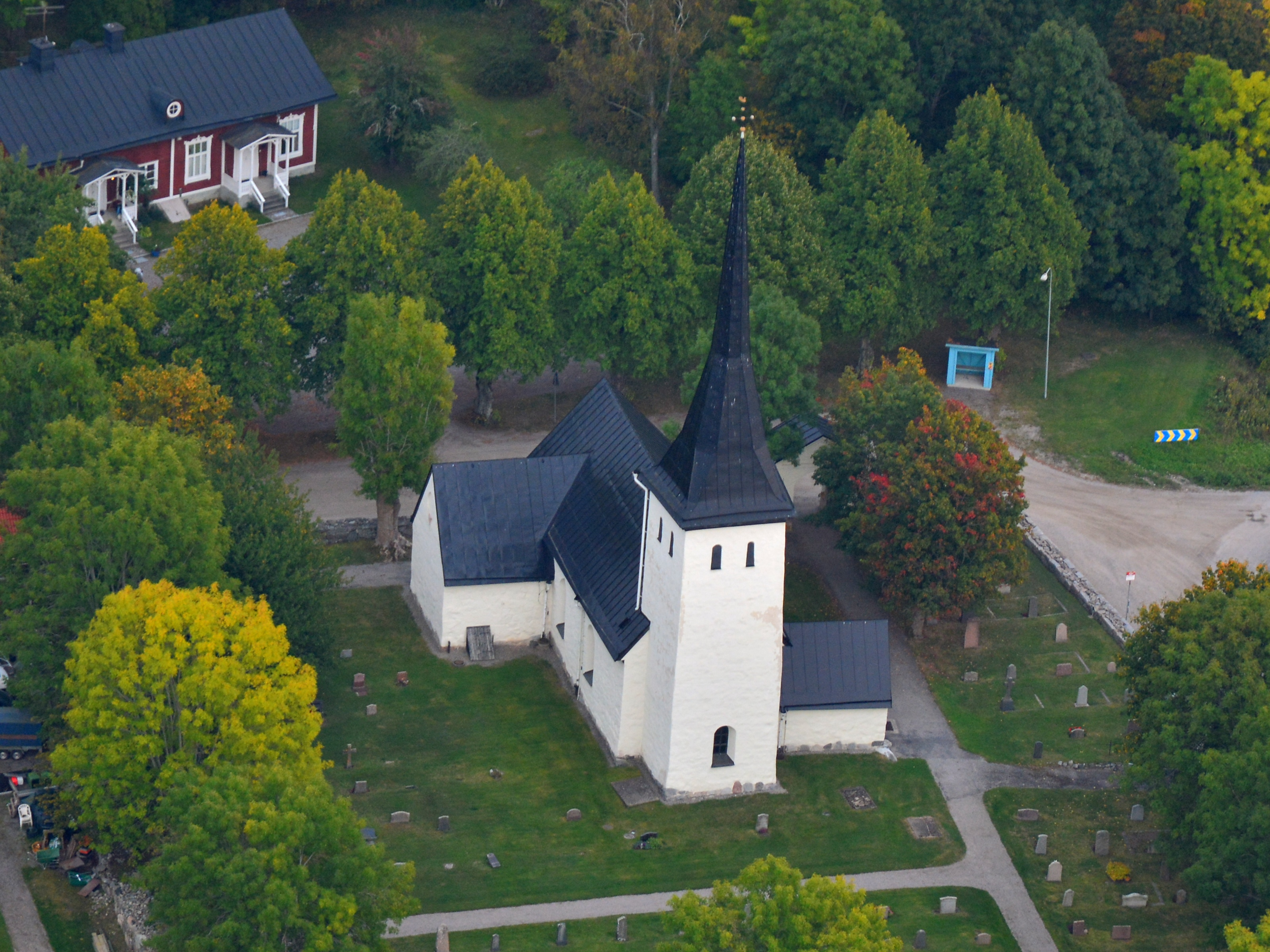 Sånga Church on Färingsö in Ekerö municipality, Sweden.